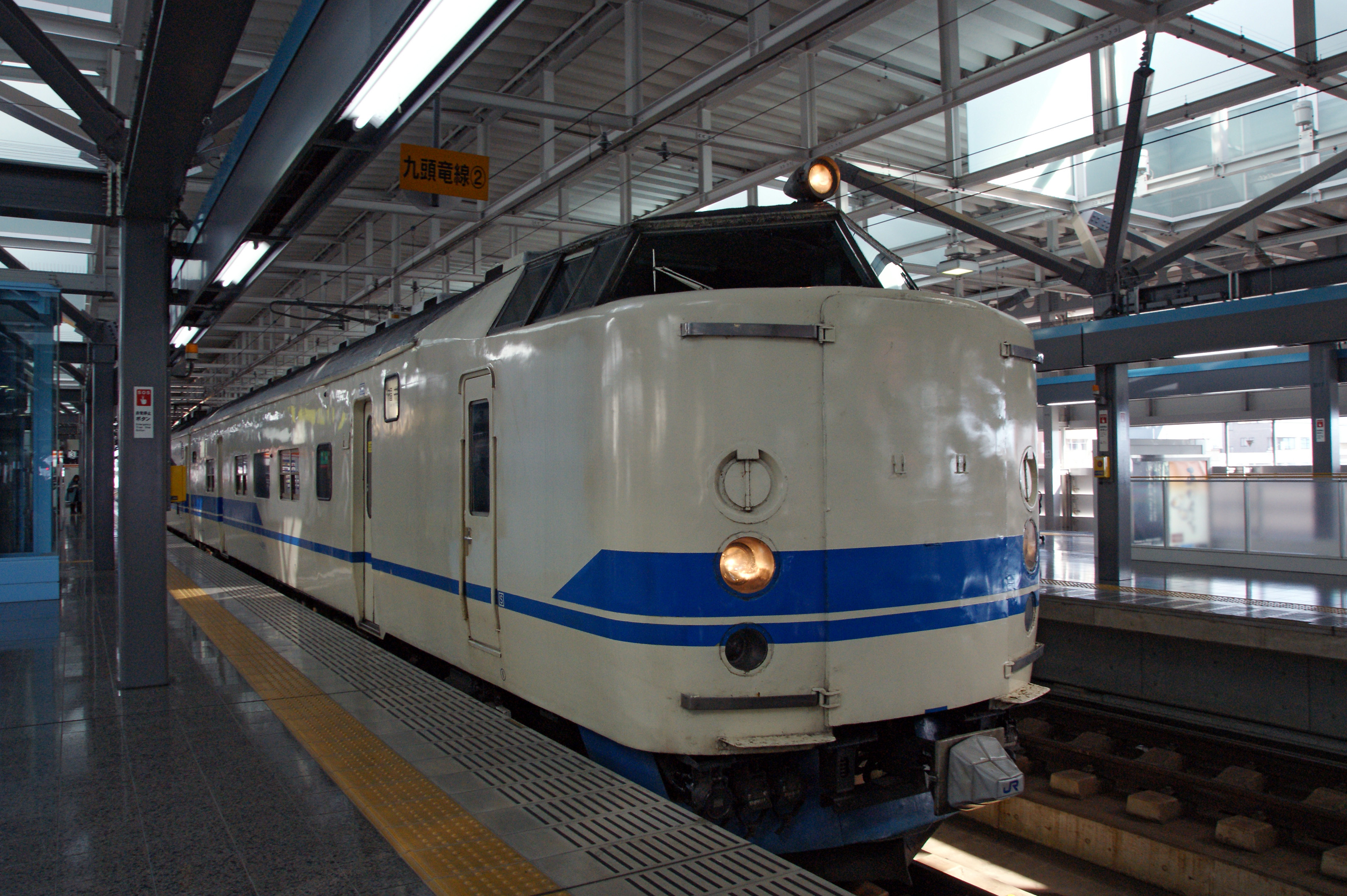 JR West Fukui Station, Fukui, Fukui prefecture, Japan